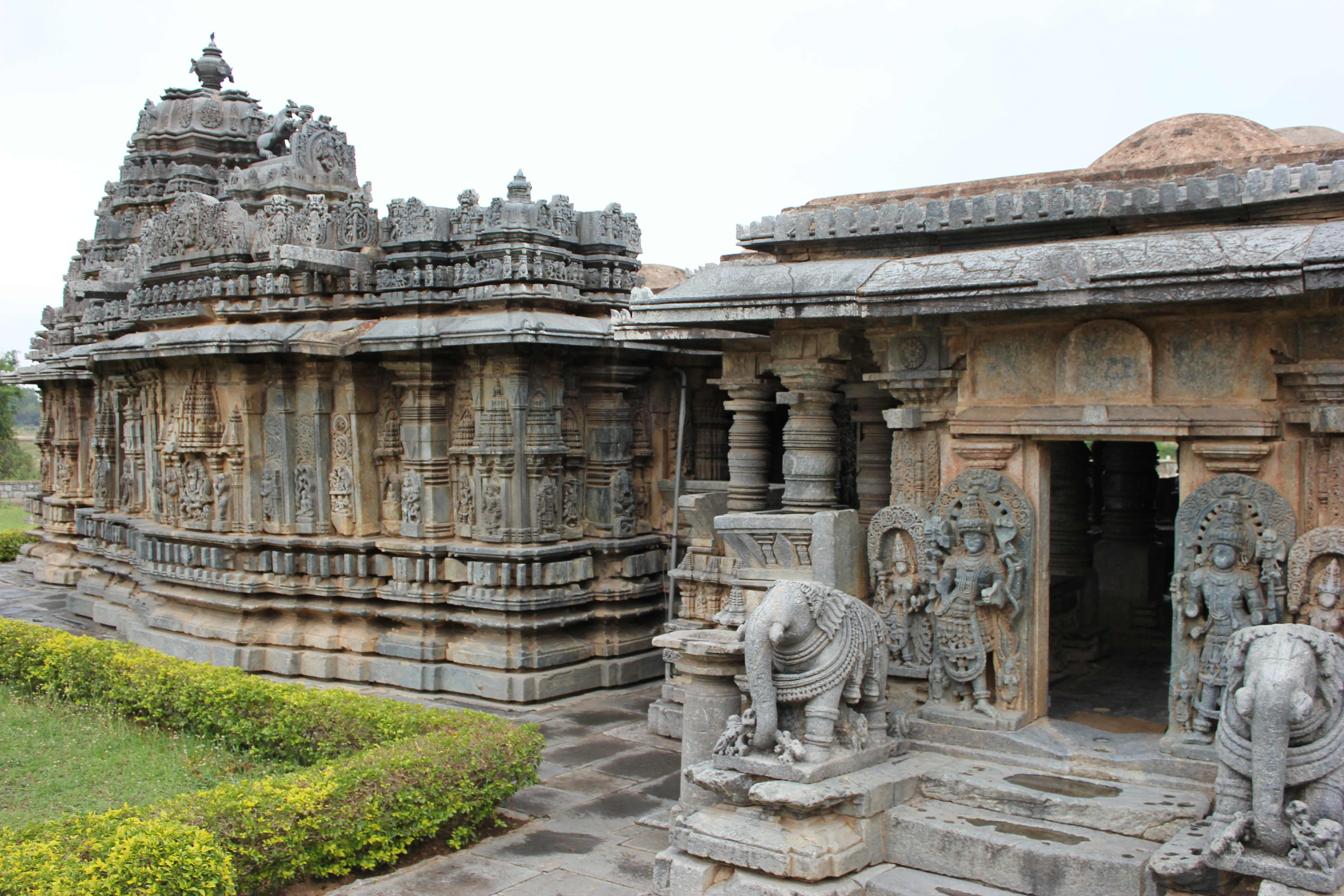 This photograph was taken by me in Koravangala, Hassan district, Karnataka state, India. The Bucesvara temple (also spelt Bucheshwara or Bucheshvara) is a elegant specimen of 12th century of Hoysala architecture. The temple was built in 1173 A.D. by an officer called Buci to celebrate the coronation of Hoysala King Veera Ballala II.